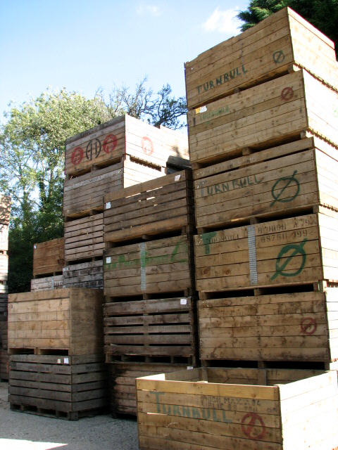 Wooden packing crates for the transport of fruit and vegetables